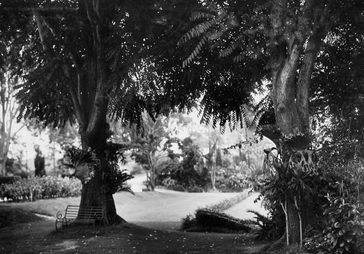 Grounds of Government House, Fernberg Road, Paddington, Brisbane. (This building is also known as Fernberg.)